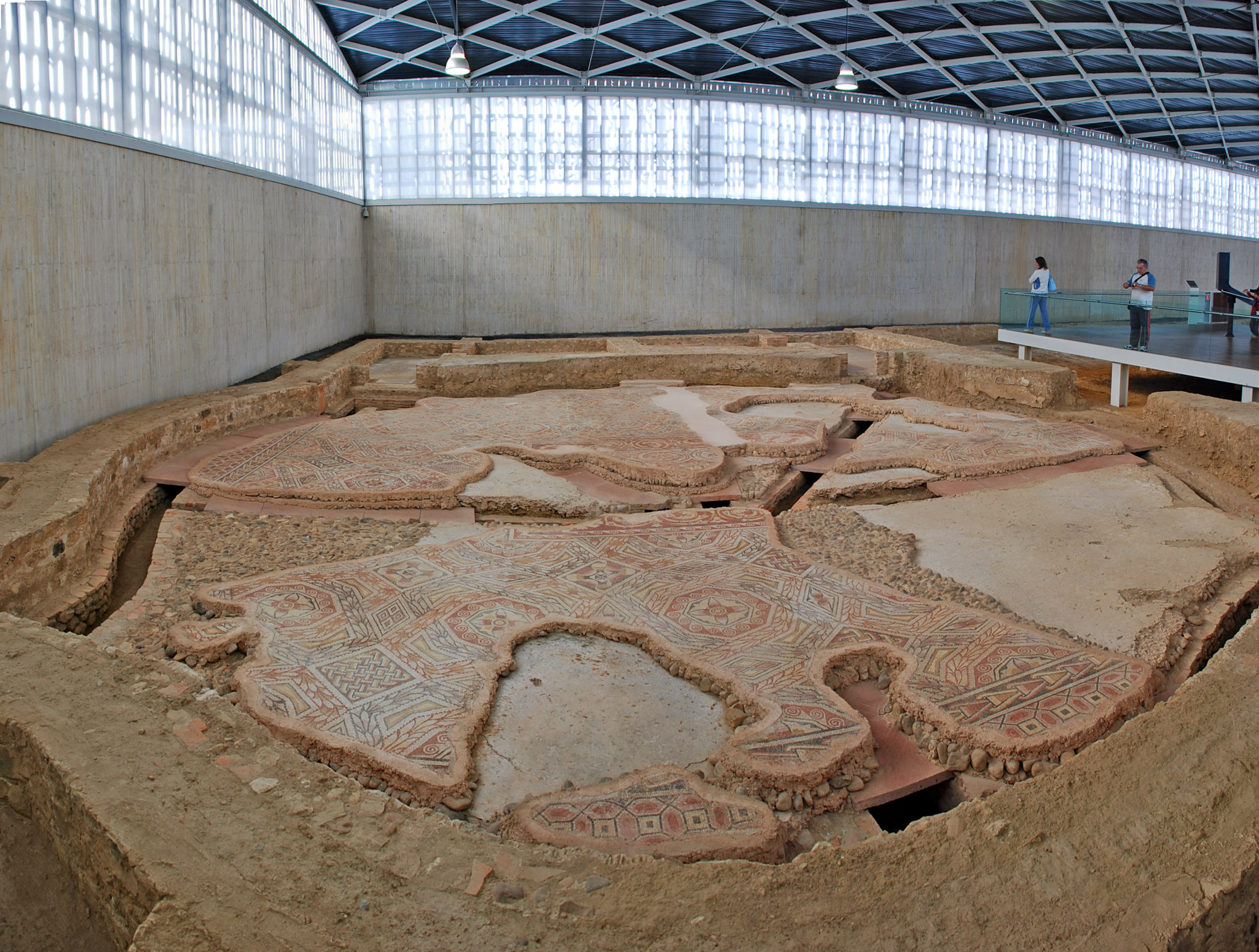 Ancient Roman thermae in roman villae of La Olmeda, Pedrosa de la Vega (Palencia, Castile and León).